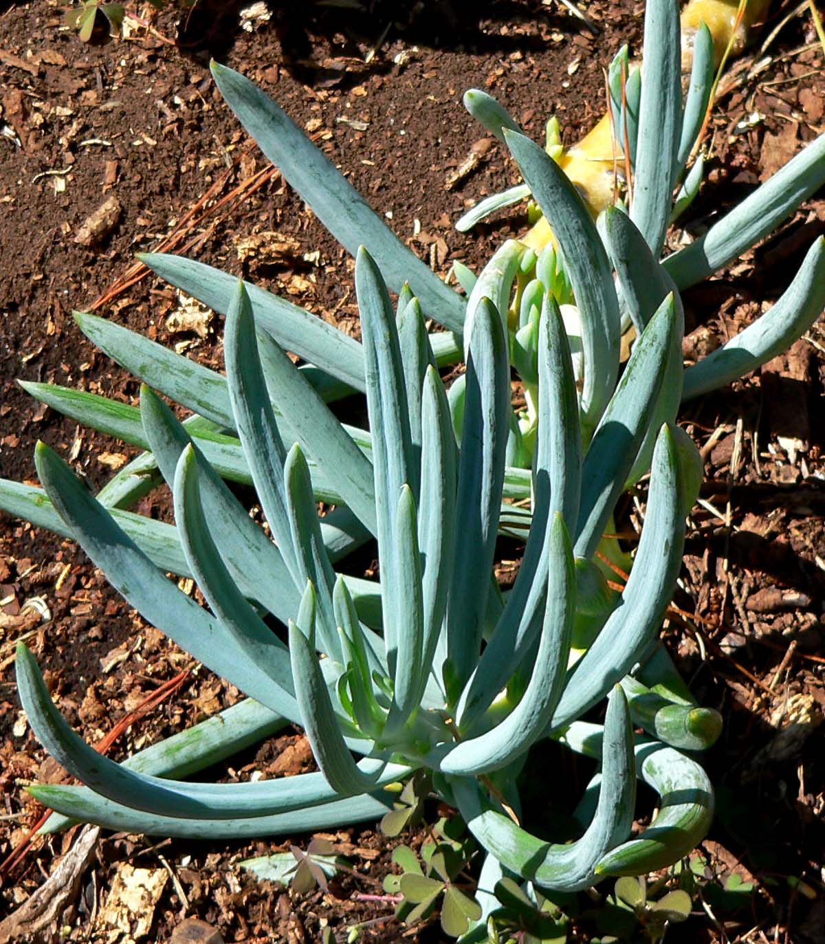 Photo of Senecio mandraliscae at the San Francisco Botanical Garden